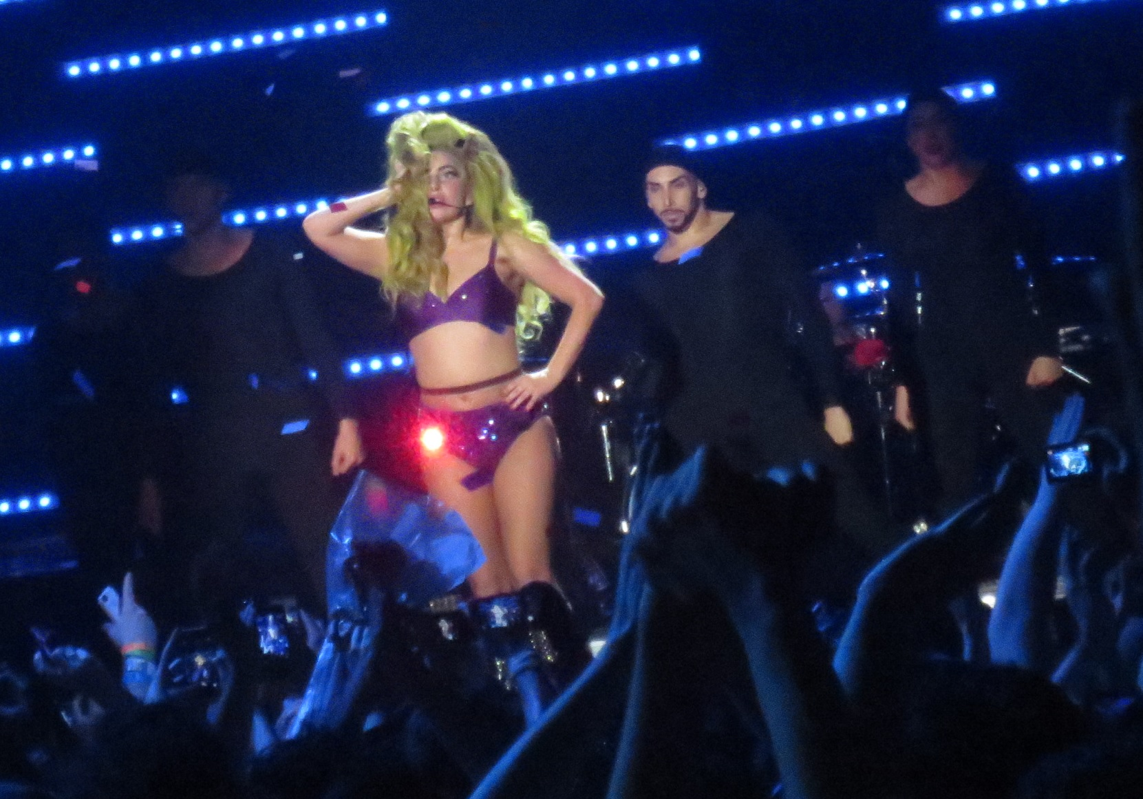 Lady Gaga performing "Applause" at Roseland Ballrom